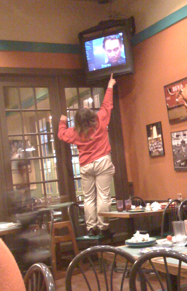 Jennifer Gale changing the channel at the Gatti's Pizza near MLK & Guadalupe Streets by the University of Texas at Austin, a regular dinnertime hangout of hers.